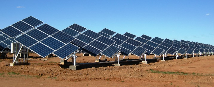 Tilt single axis tracker in Siziwangqi, China. Developed by Suntrix